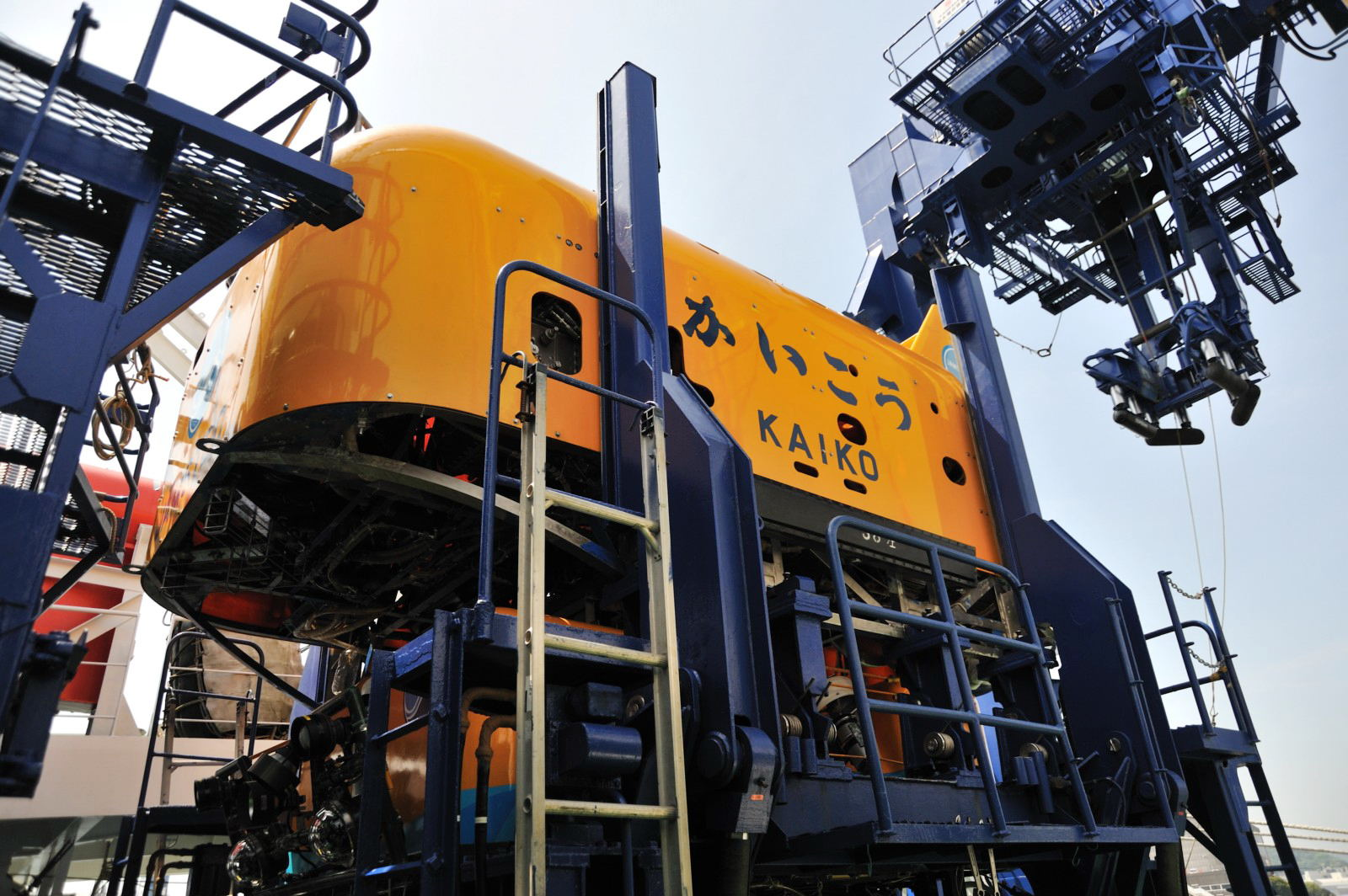 Remotely Operated Vehicle (ROV) Kaiko 7000Ⅱ Launcher